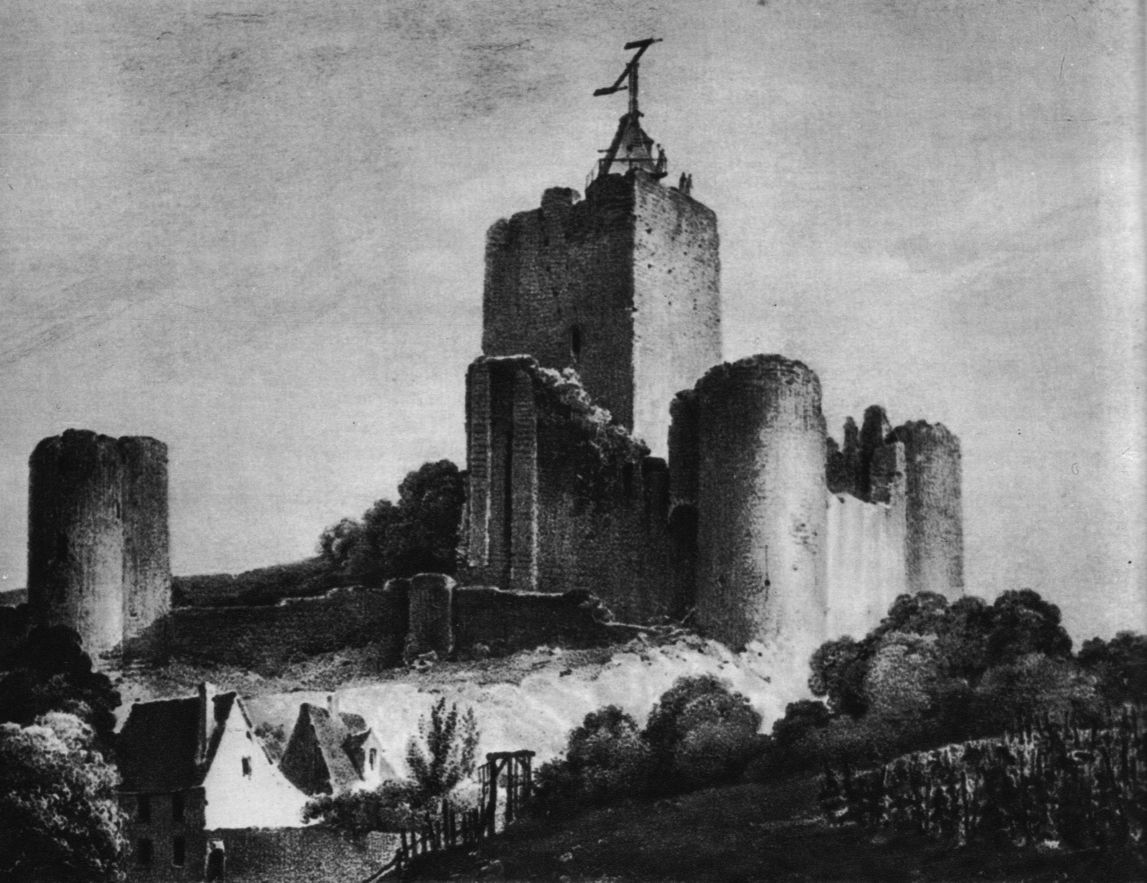 Chateau of Montbazon